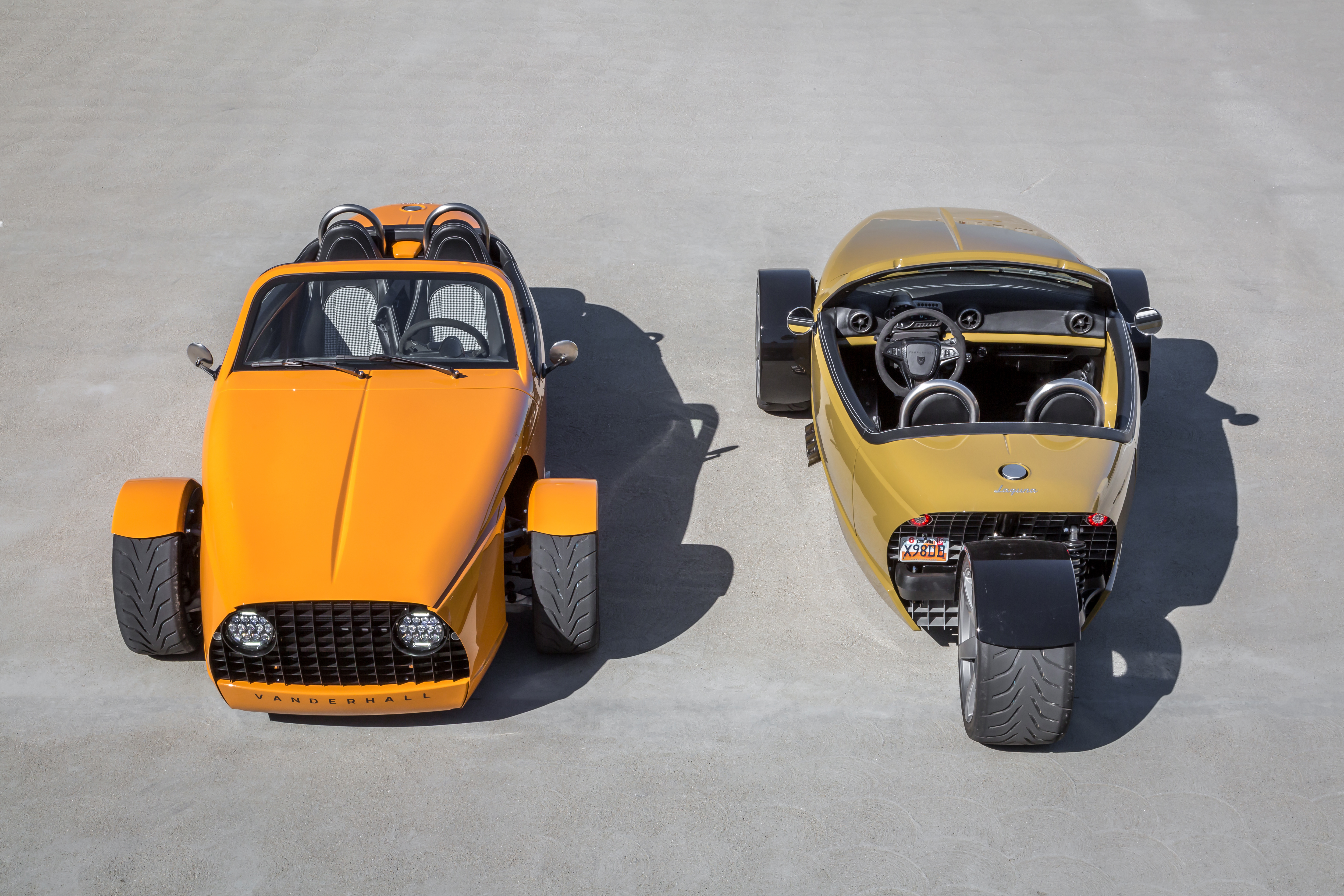 2016 Vanderhall Laguna Roadsters